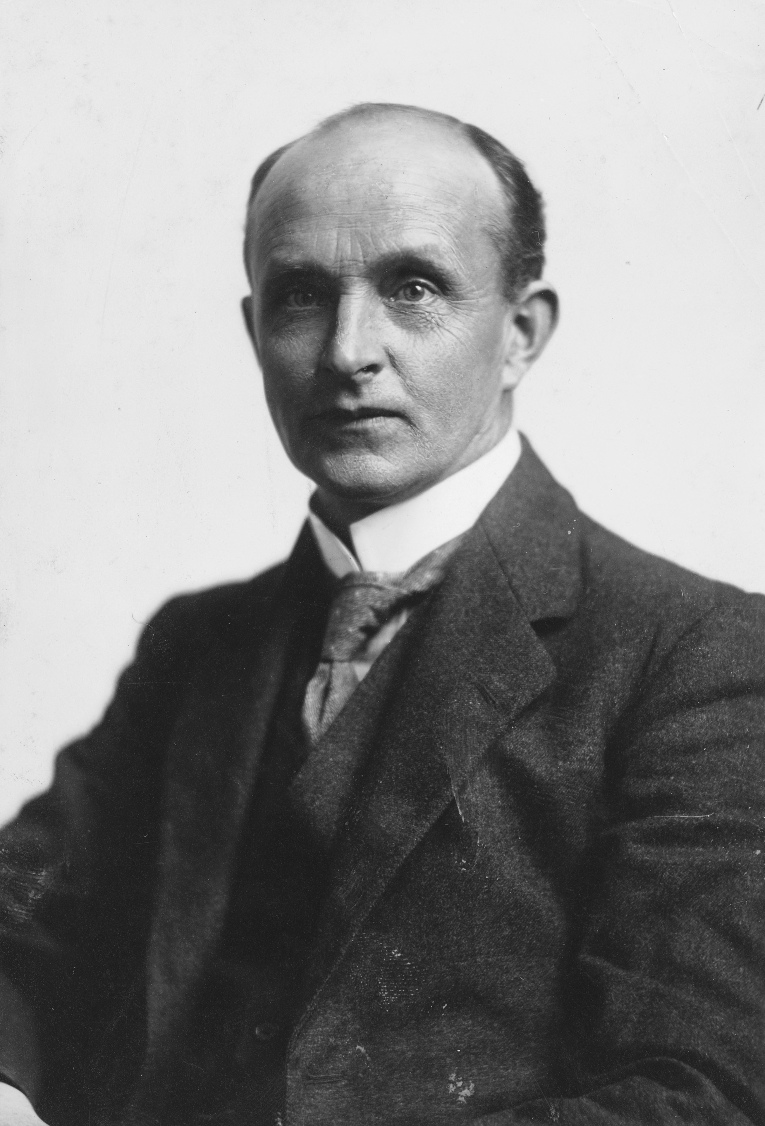 Portrait of James McCombs (1873-1933), MP for Lyttelton 1913-1933, taken in the early 1920s by an unknown photographer.